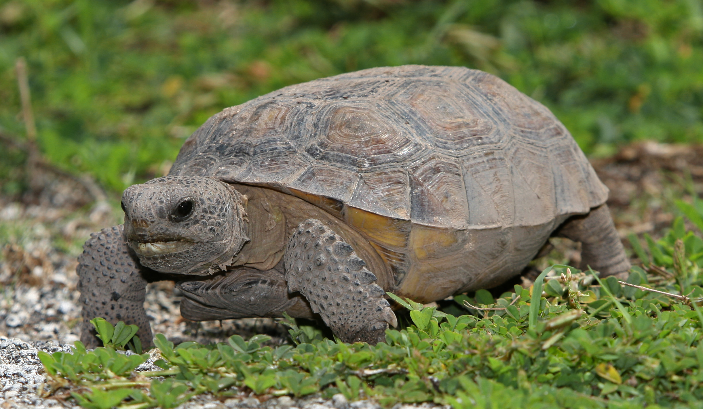 Gopherus polyphemus — Florida Gopher Tortoise In Green Swamp, Central Florida.